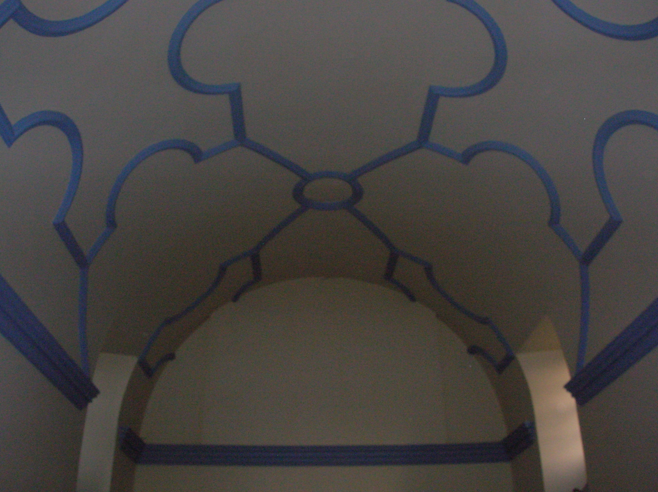 The ceiling of Clandeboye Hall (old school) in Dunlop village, East Ayrshire.